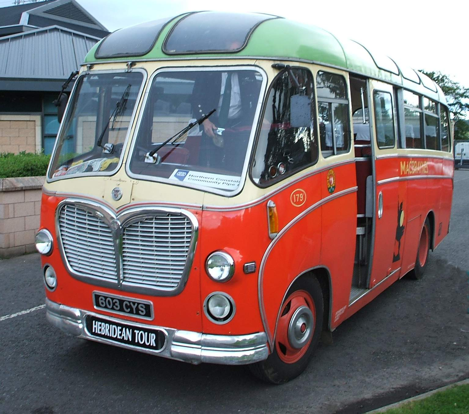 This beautifully-restored 1961-vintage MacBraynes Bedford C5 coach (with original coachwork by Duple) is owned by a charitable trust. In its previous life it used to transport tourists and locals alike around the West Highlands, its short wheelbase and light structure making it suitable for the many single-track roads with tight bends of the North and West of Highland Scotland in the 1960s and 1970s. 603CYS (Number 179 in the MacBraynes fleet) was bought for preservation by the late Andrew Muckley of Houghton-le-Street, from Co. Durham who was instumental in forming the MacBraynes Circle. It passed to another preservationist in Inverness and was stored at the Highland depot in the town and on the takeover of Highland by Rapsons. They took control of the bus and it is now in the care of the MacBraynes Circle. A photograph of the vehicle in service in 1963 appears at